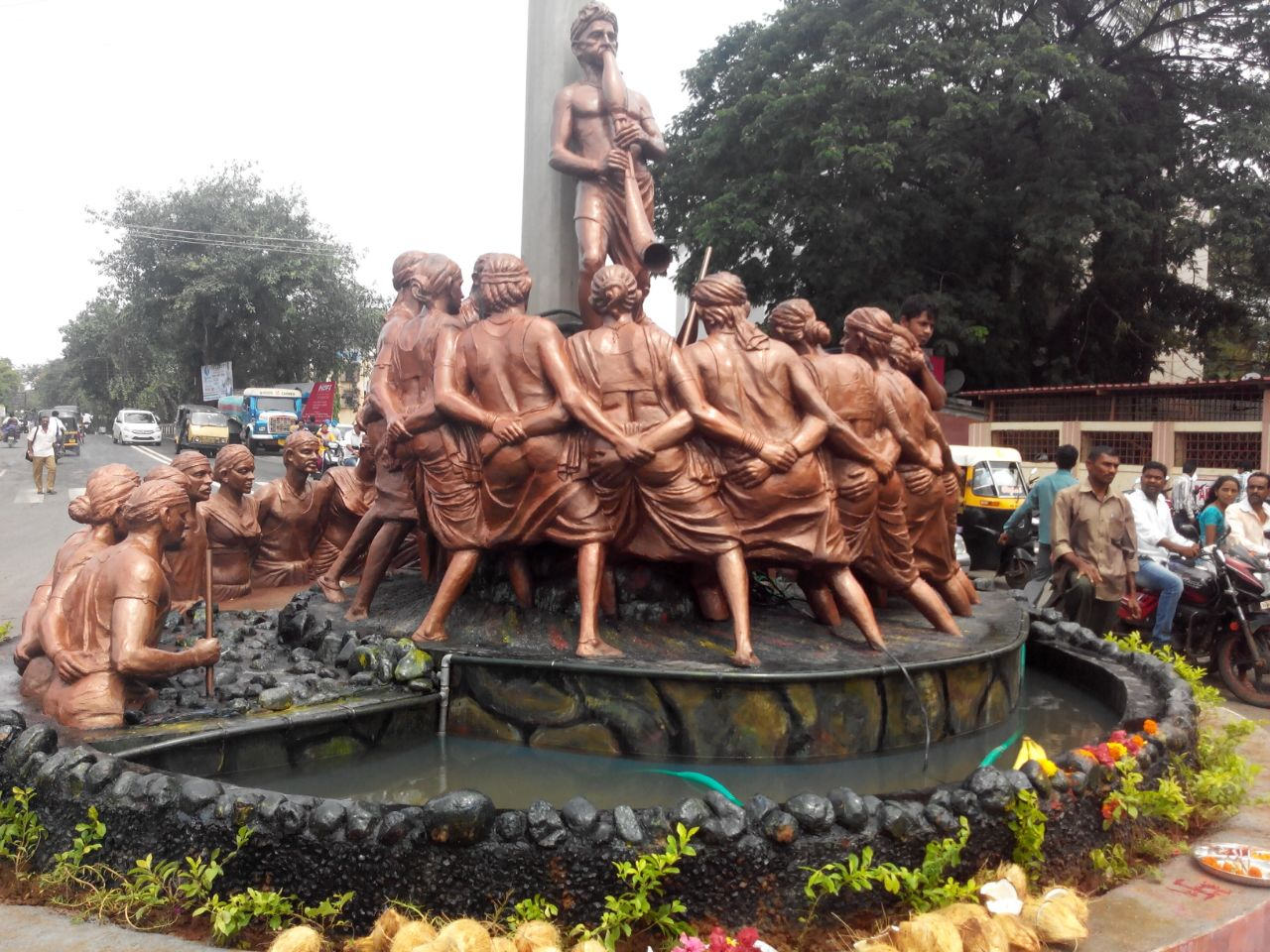 Bal Gangadhar Tilak Chowk, Dahanu